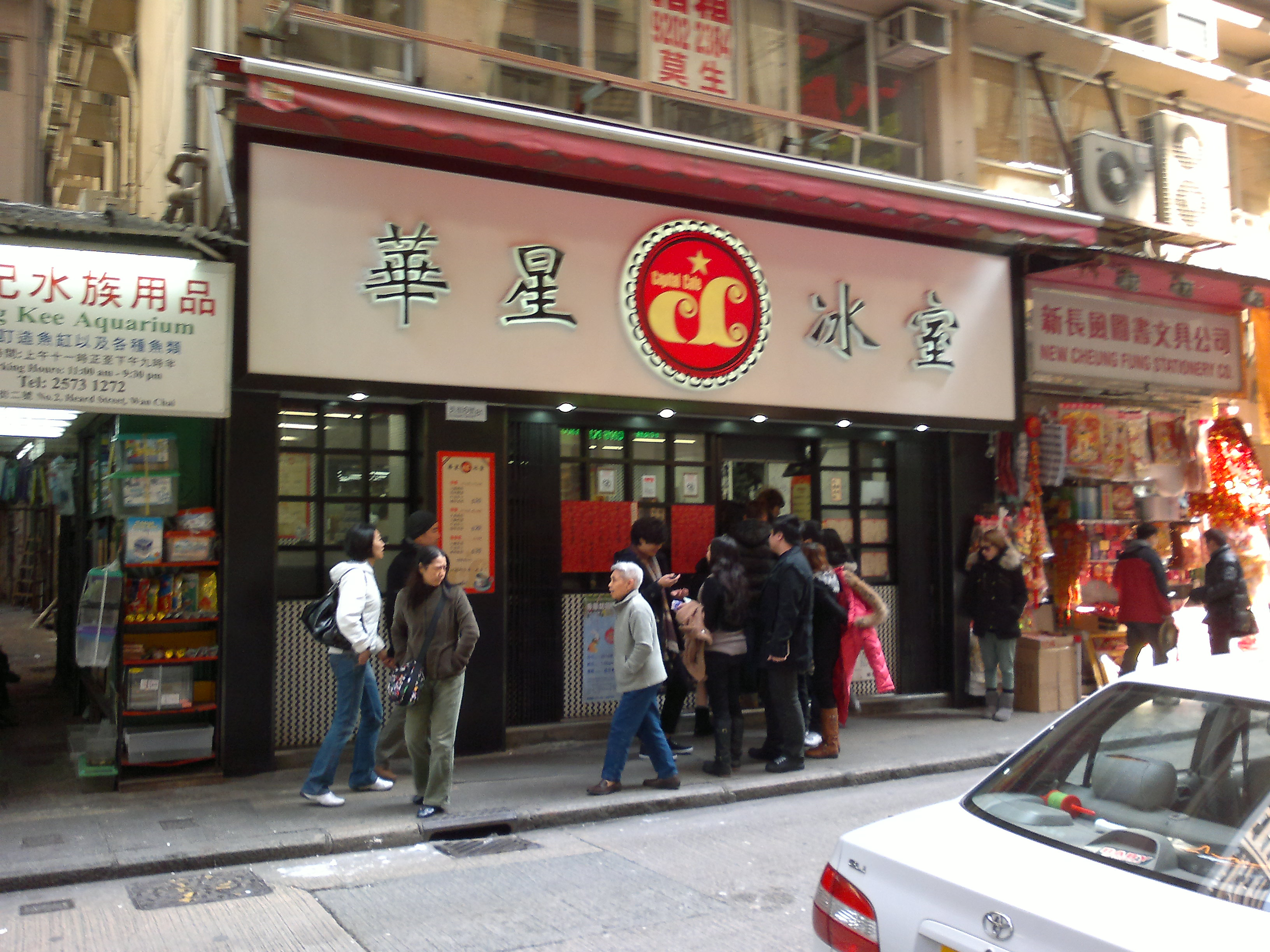 Capital Cafe, Heard Street